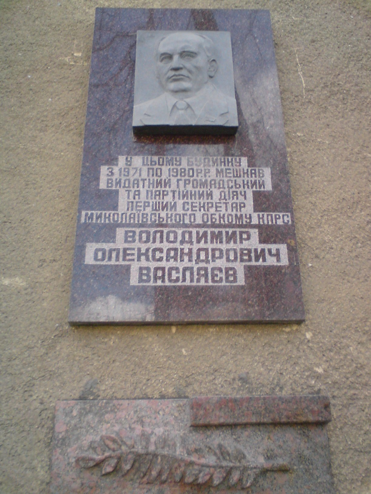 Plaque to Vasljaev, Mykolaiv